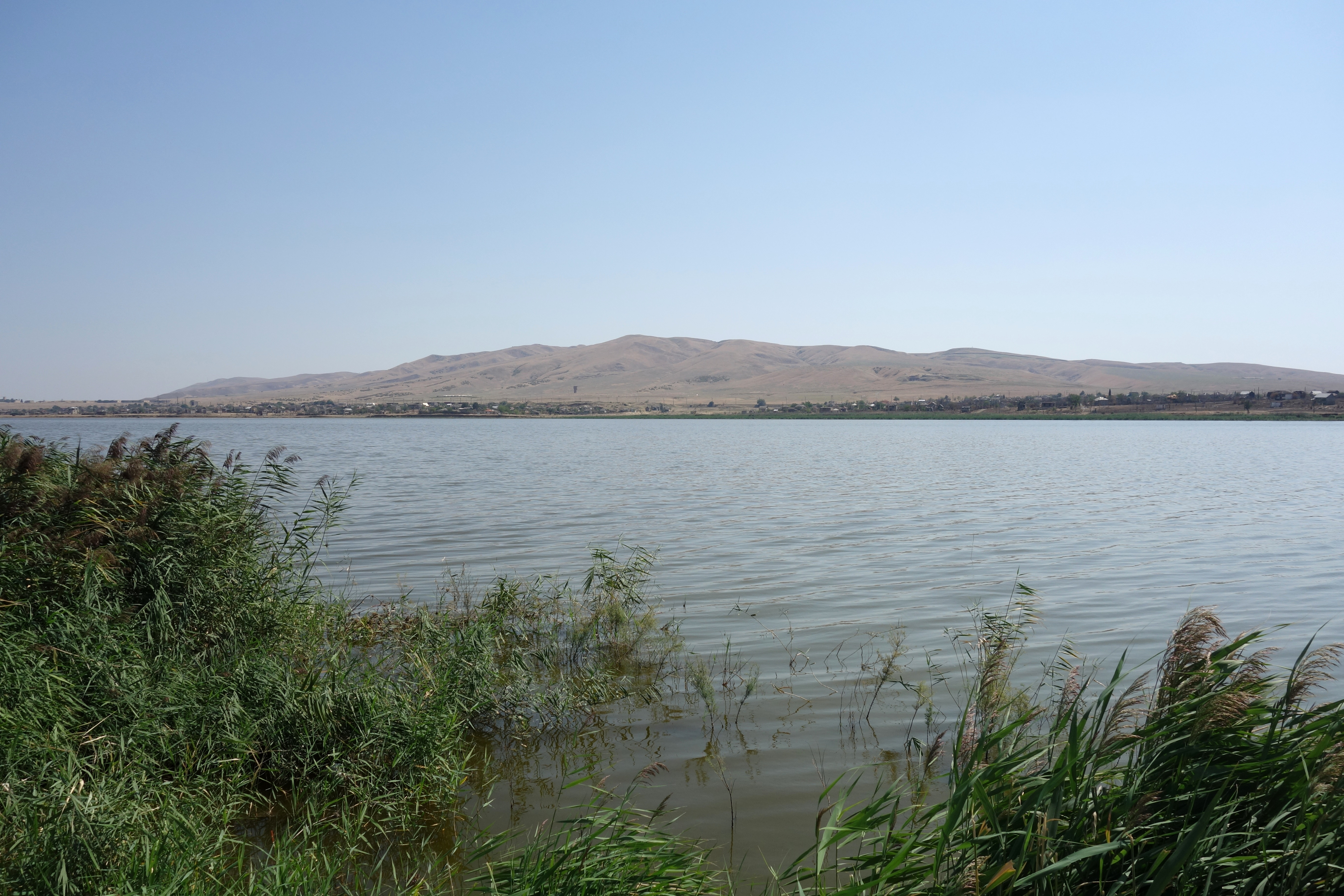 Lake Kumisi, Kvemo Kartli, Georgia